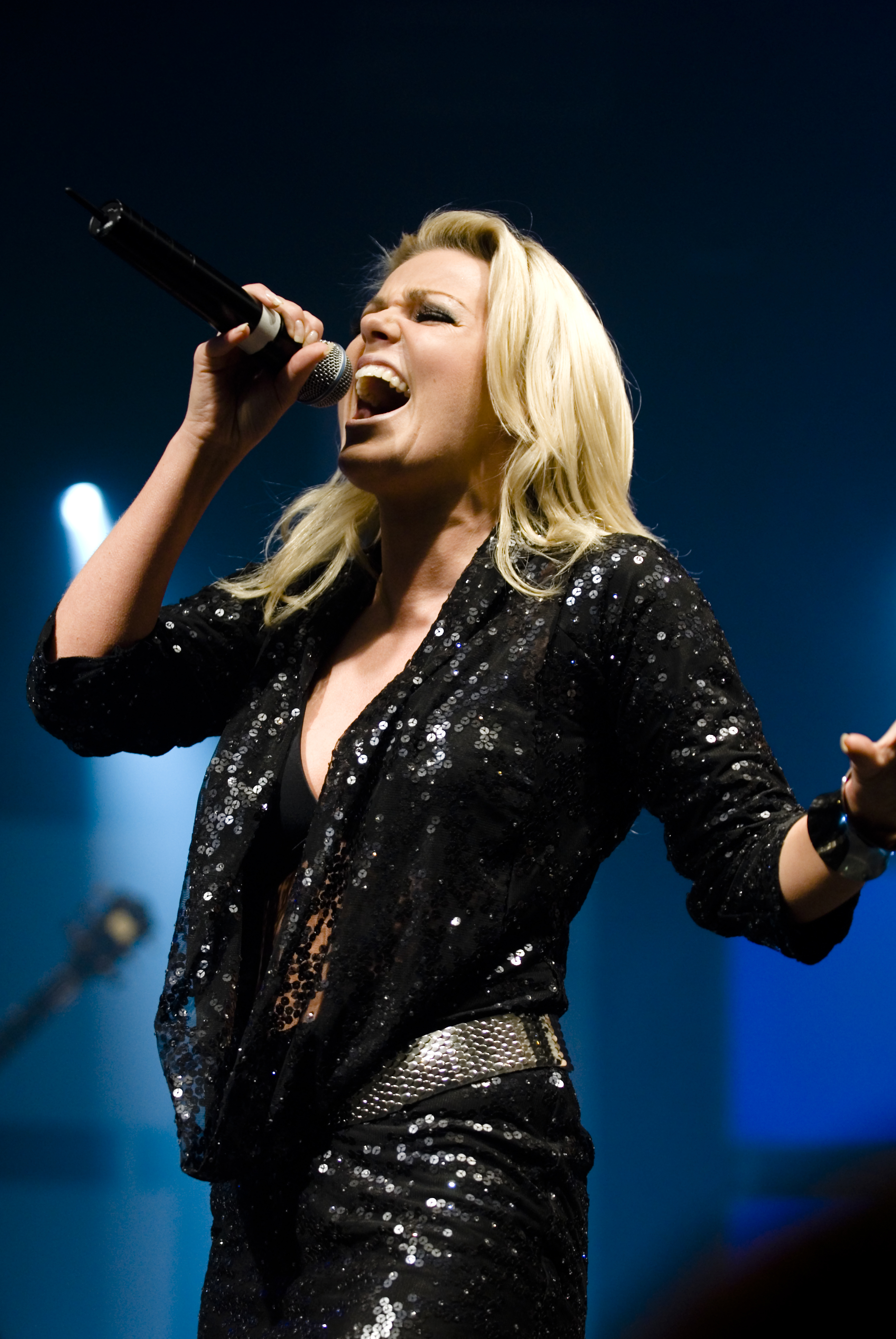 Danish Music Duo "Infernal"'s lead, Lina Rafn at Danish DeeJay Awards 2007 in Copenhagen.